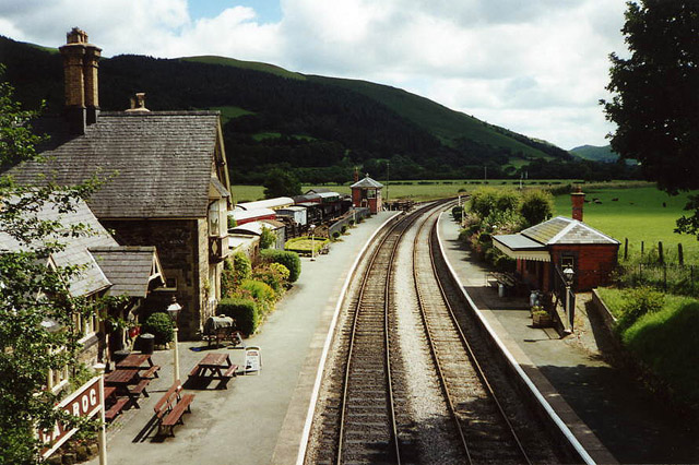 Carrog: Carrog Station on the Llangollen Railway Prior to 1965, when the line was closed by British Railways - or was it British Rail by then? - trains ran through from Wrexham or Chester to Barmouth or Pwllheli. Now part of a 'heritage' railway